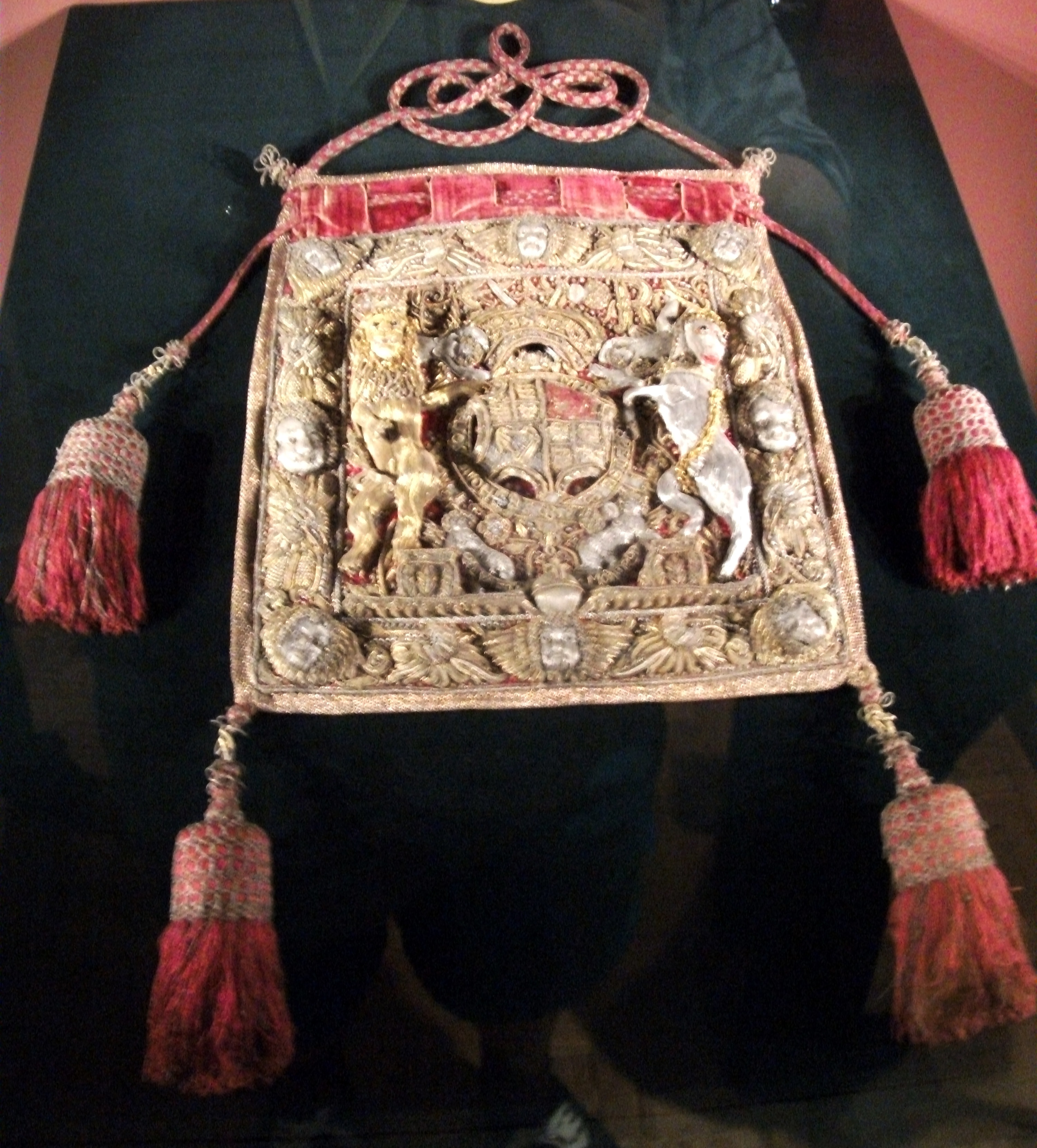 Chancellor's Purse, Weston Park, Staffs